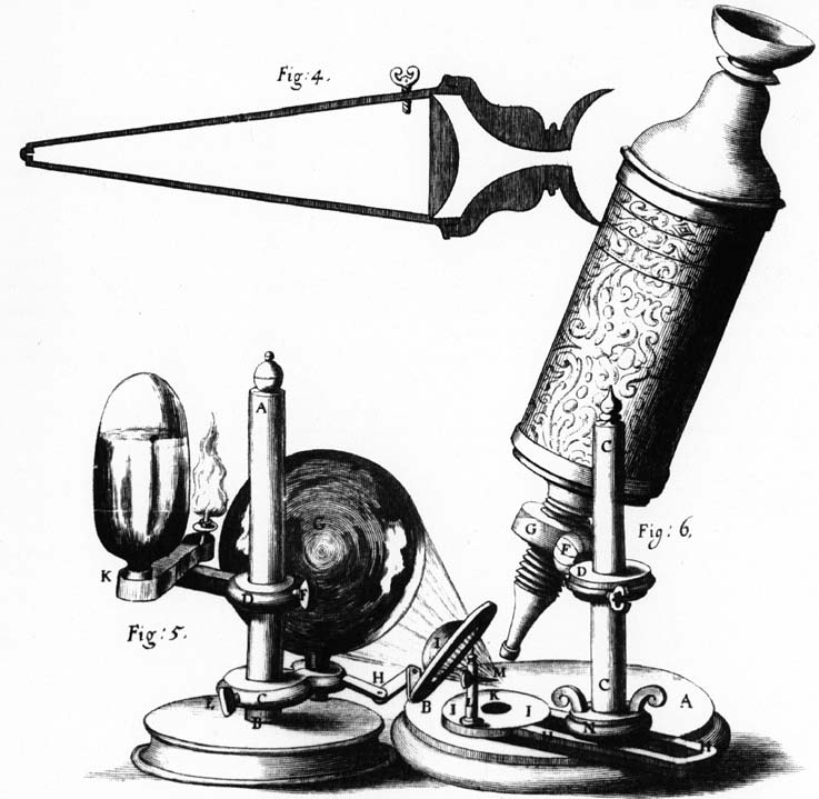 The microscope of Robert Hooke, sketch from his original publication.